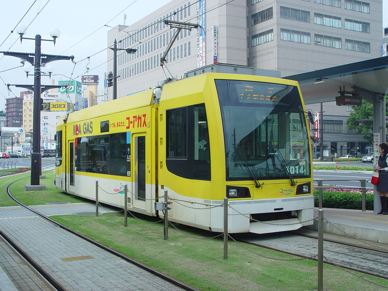 1000 series tram in Kagoshima